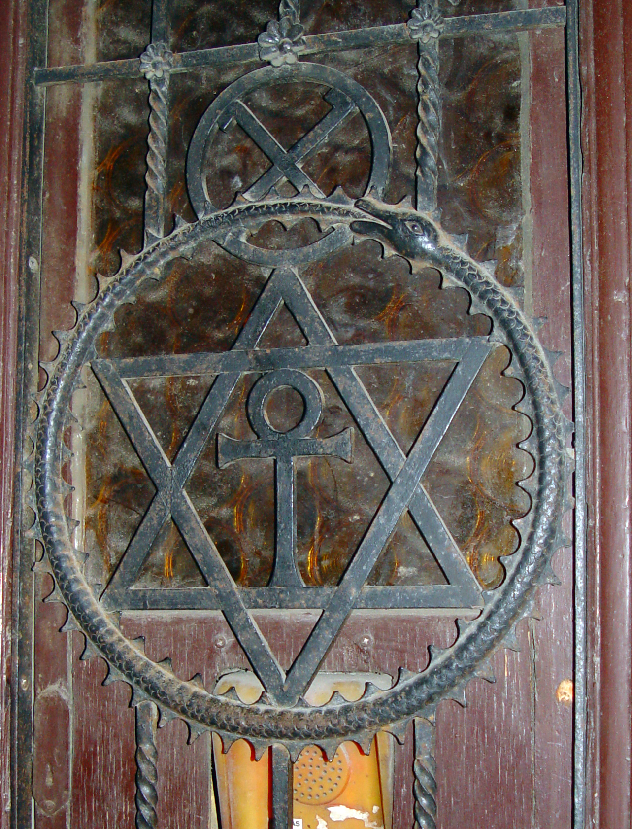 Seal of the Theosophical Society - Door decoration at Kazinczy Street 55, Budapest (Hungary).